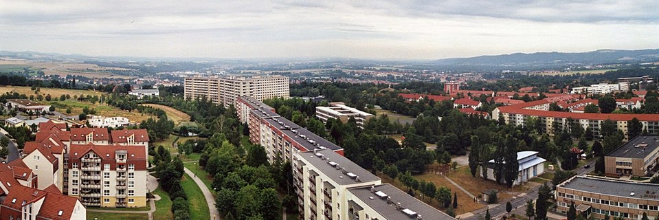 Pirna: district Pirna-Sonnenstein.